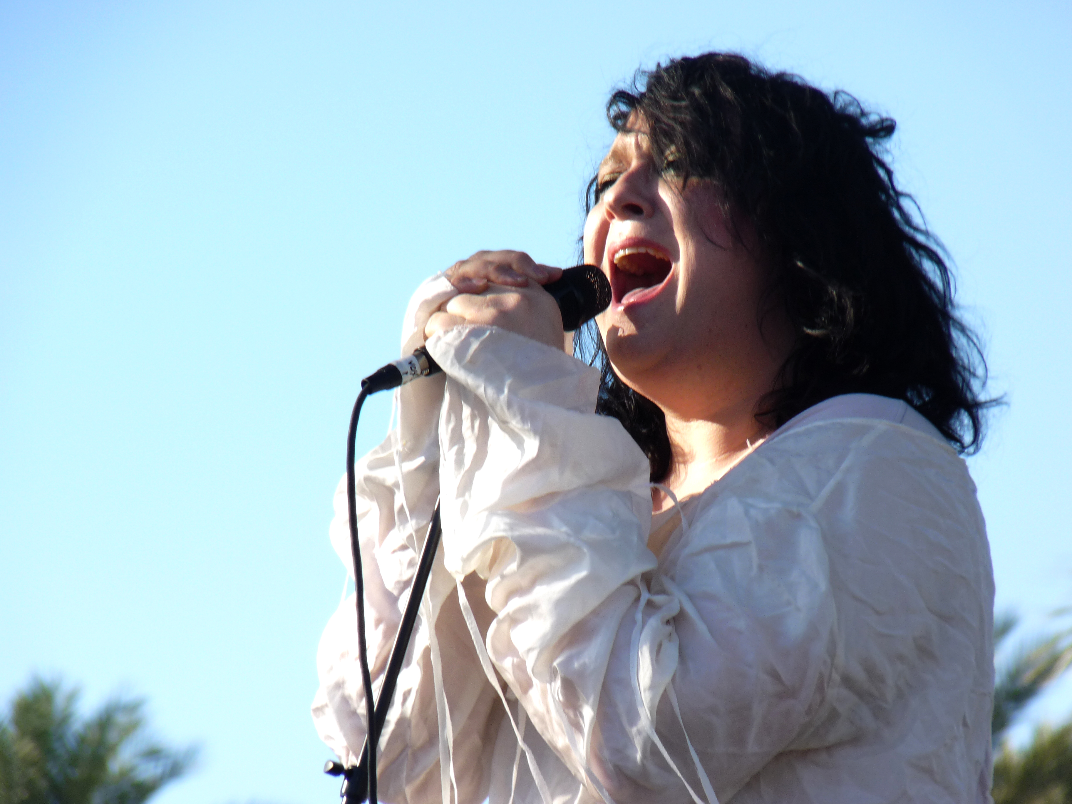 Singing her heart out.